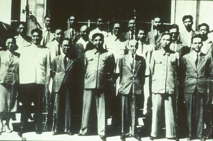 First Cabinet of North Korea, from the left of the lower front row, Heo Jeong-sook, Choi Yong-geon, Park Heon-young, Kim Il-sung, and Hong Myong-hee